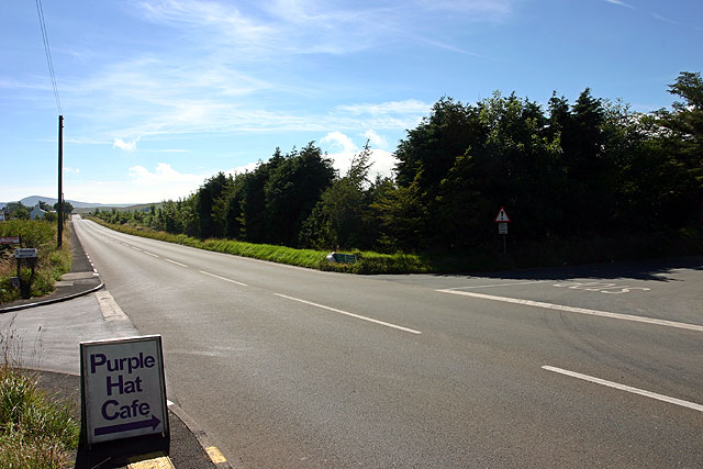 Cronk y Voddy. Looking SW back along the TT course towards Glen Helen.